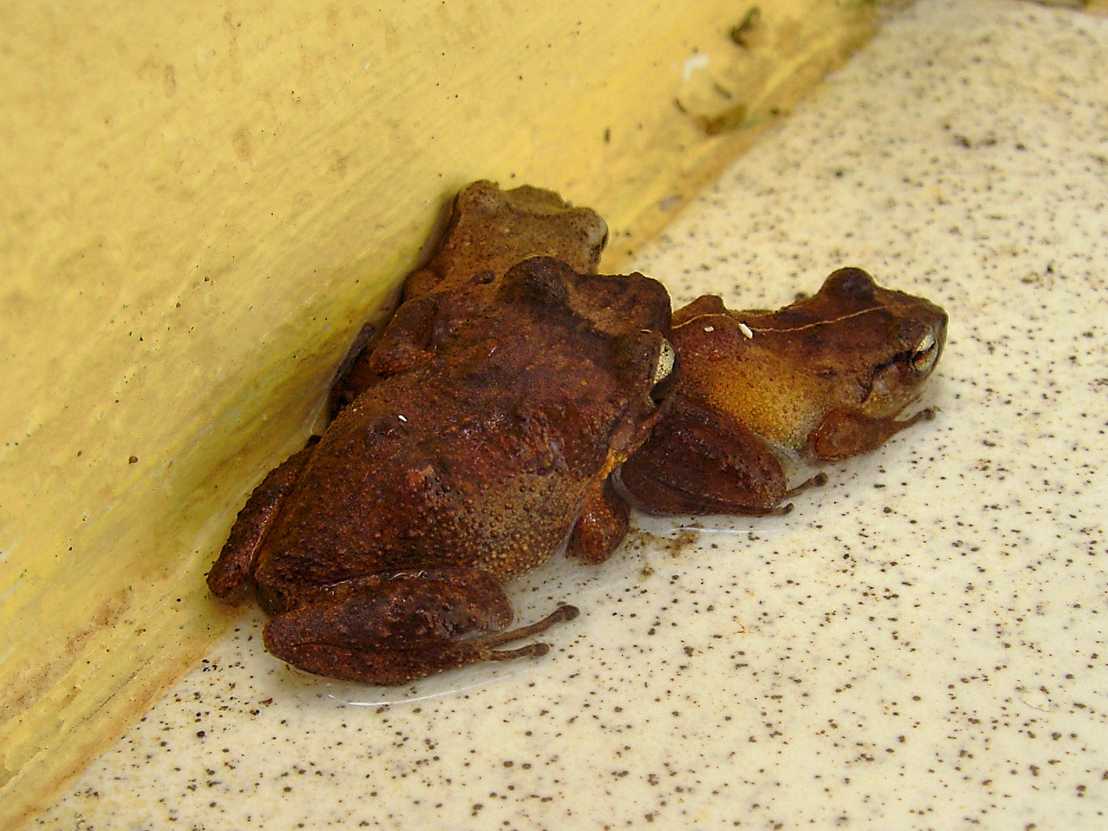 At Palm Tree House, Woodford Hill, Dominica, W.I.